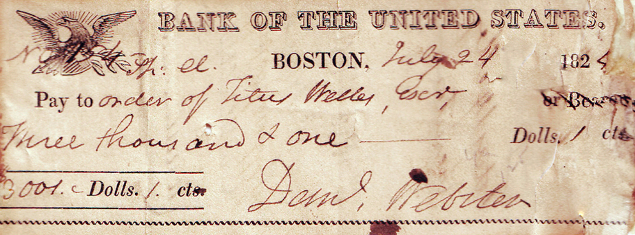 A bank draft (No. 754, dated July 24, 1824), hand written and signed by Daniel Webster on a printed form in the amount of $3,001.01 drawn on the Boston branch of the Second Bank of the United States (1816-41) and made to the order of Titus Welles, Esq, an attorney and President of the Eagle Bank (Boston) who received the funds acting as executor of an estate. Then a member of Congress (Fed-MA 1st), Webster was also both legal counsel for the Congressionally chartered, Philadelphia based Bank as well as the Director of its Boston branch. In 1819 he won McCulloch v. Maryland, in the Supreme Court of the United States which reversed an earlier Maryland Court of Appeals holding in a tax case against the Baltimore branch of the Bank. Based on the Consumer Price Index, $3,001.01 would represent in excess $75,000 in 2017 US Dollars.